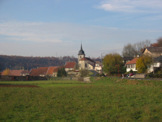 VIEW ON THE VILLAGE, THE CHURCH